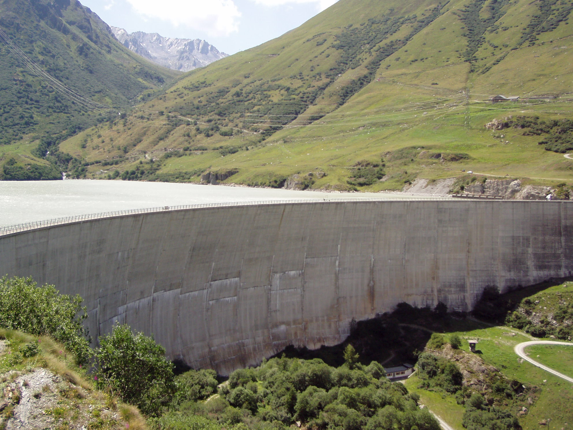 Dam of artificial reservoir Lac des Toules, Switzerland